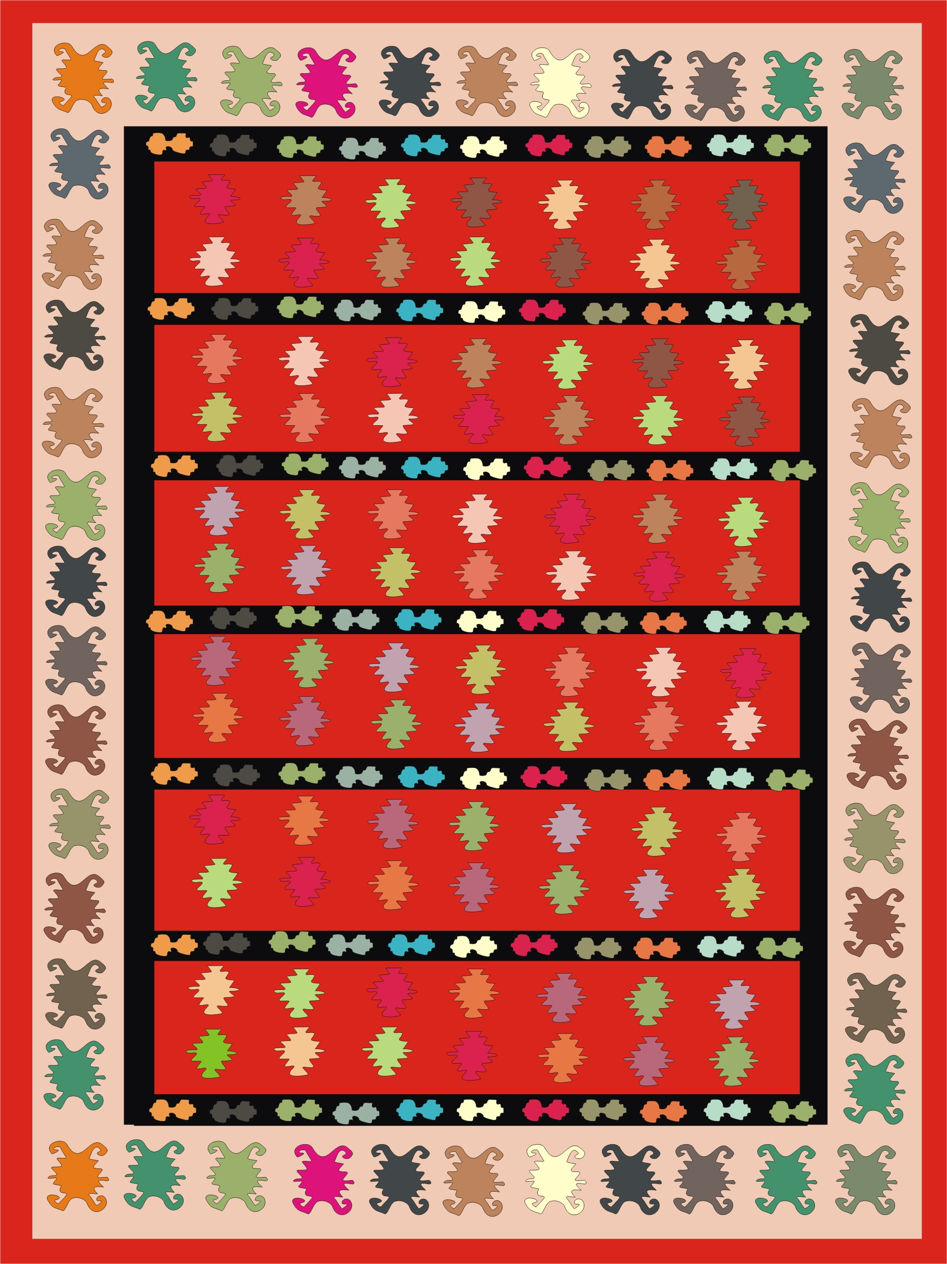 Ornament Bombe u pregradama